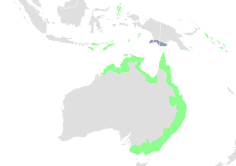 Approximate species distribution Colour Key: = Extant (resident), = Extant (non breeding)